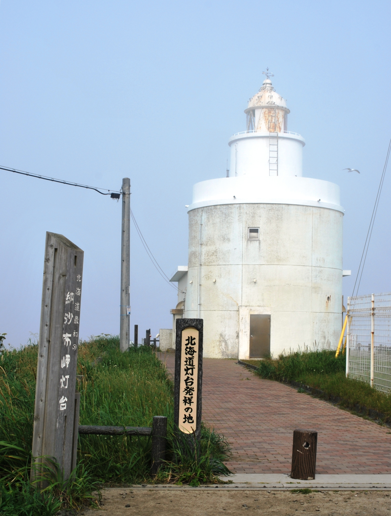 Nossapu cape lighthouse